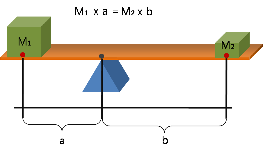 a simple 3D illustration to show lever principle